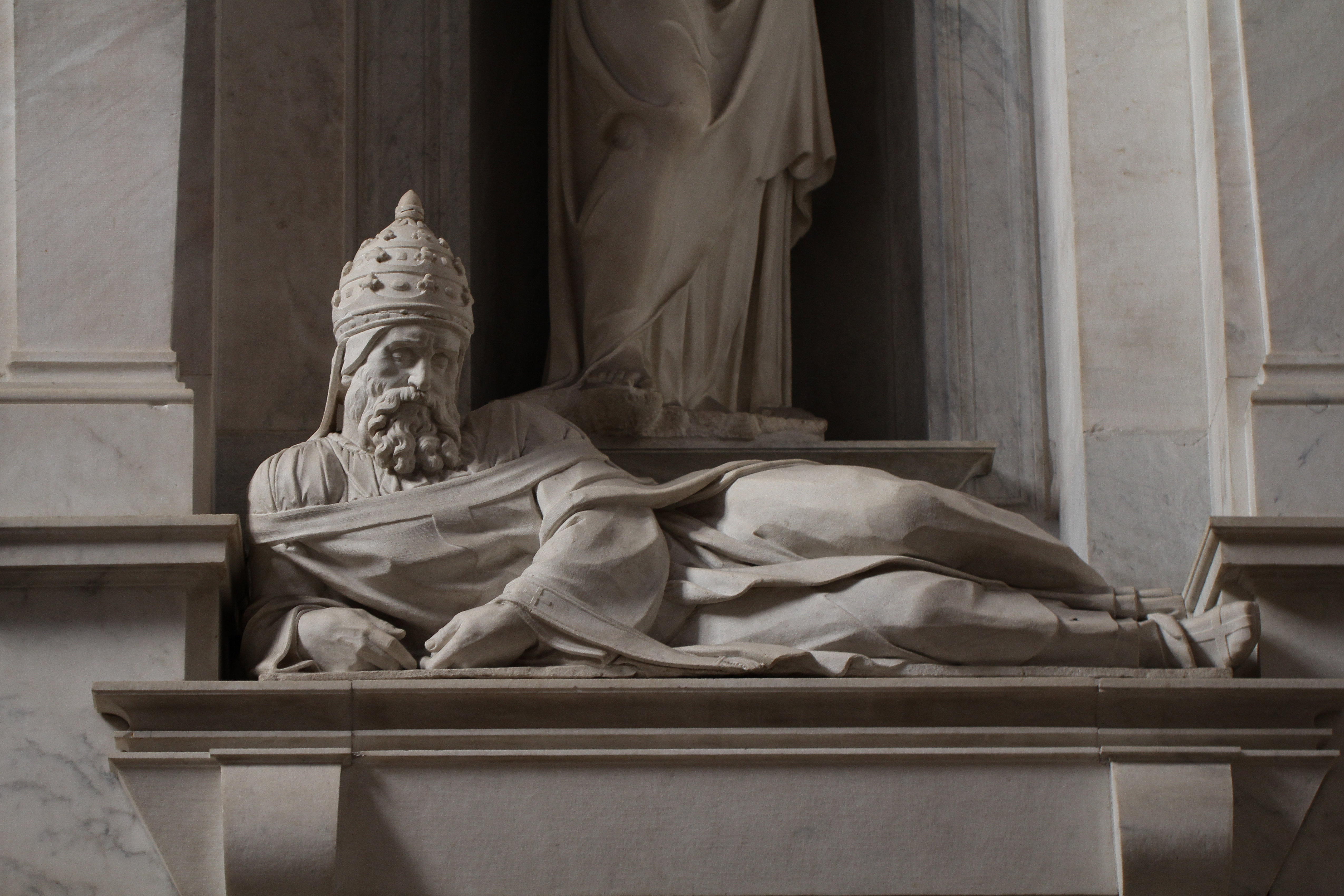 Figure of Julius II, Tomb (1505-1545) for Julius II by Michelangelo Buonarroti, San Pietro in Vincoli (Rome)